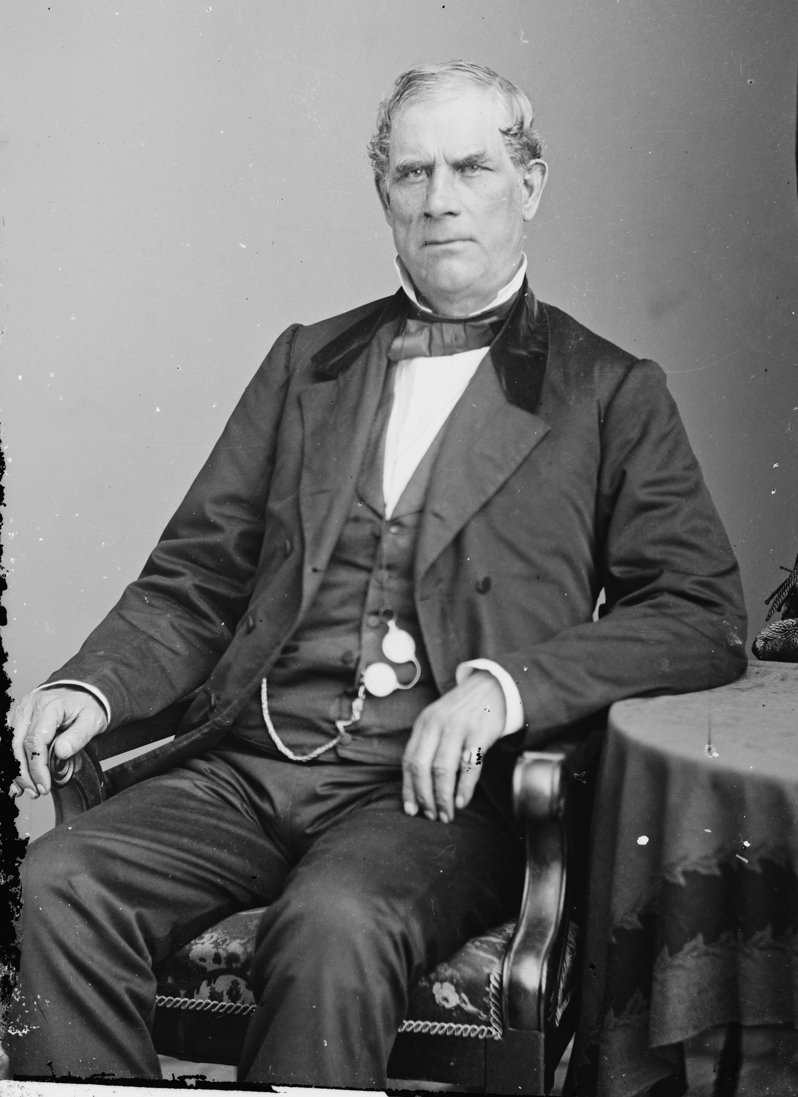 Thurlow Weed. Library of Congress description: "Hon. Thurlow Weed"